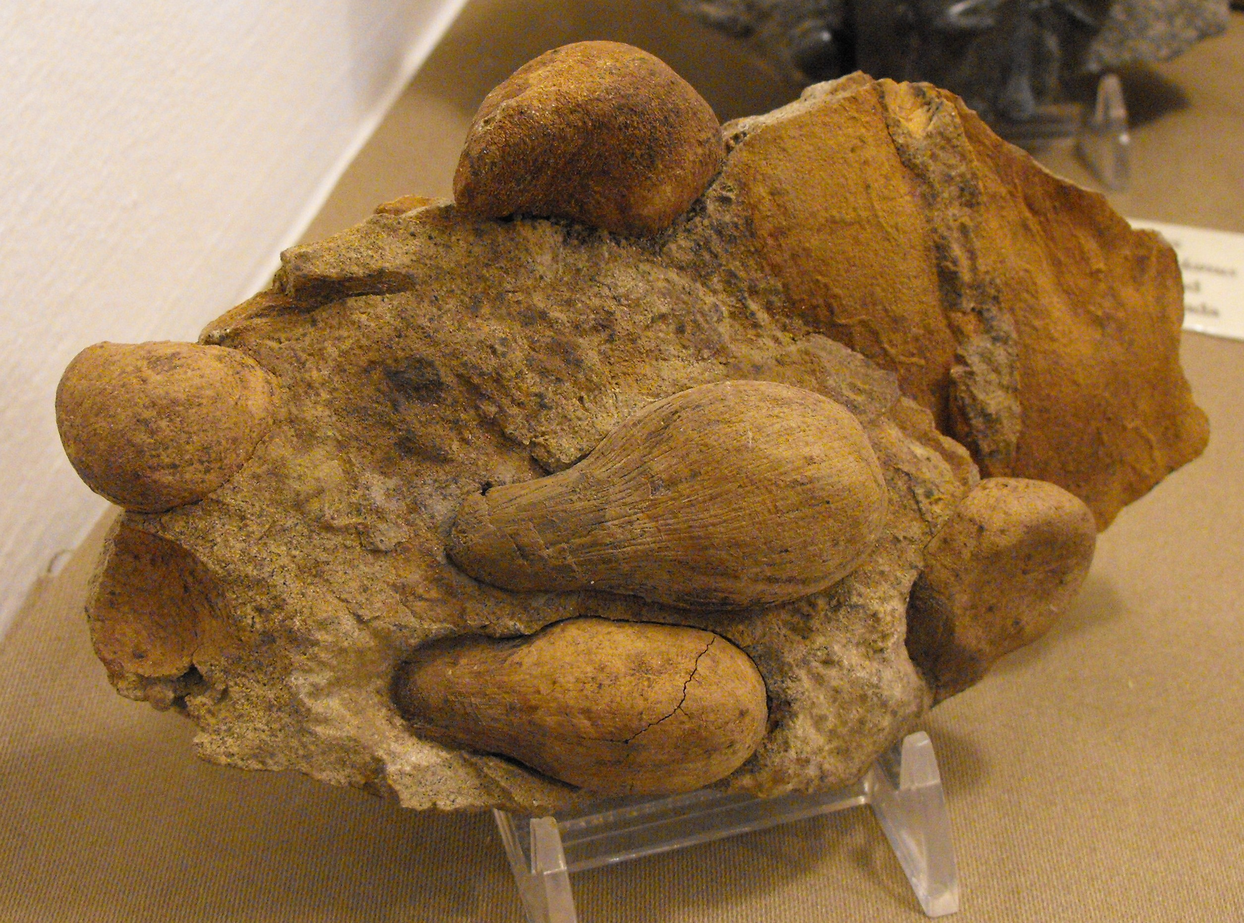 Fossil fruit Spinifructus antiquus (Dawson) McIlver, 2002 (synonym:Aesculus antiquus; Ficus ceratops) of unknown family and order, from the Hell Creek Formation in Montana, on display at the San Diego County Fair, California, USA.